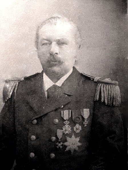 G. Kruijs